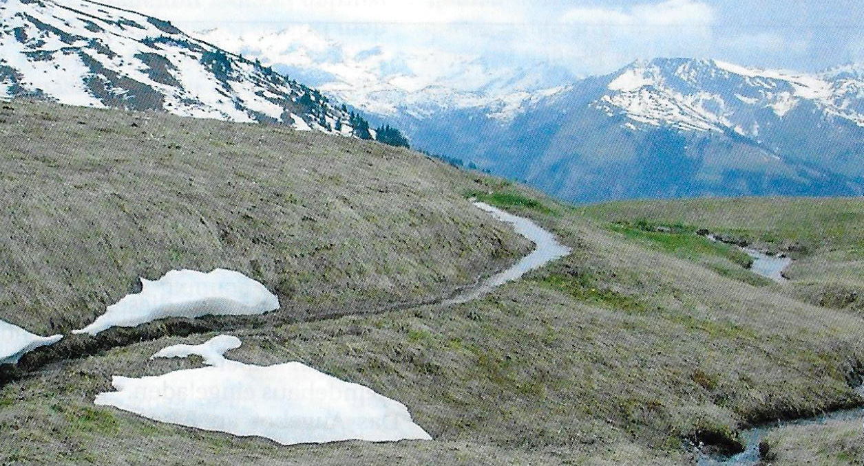 Wallis style of irrigation on Albrist